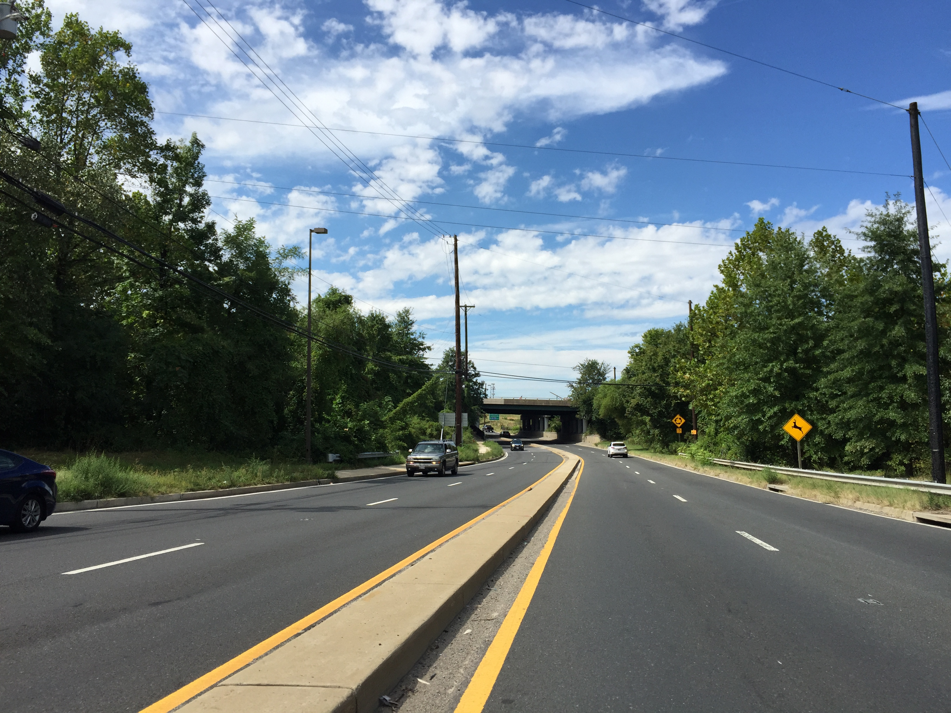 View west along Maryland State Route 221 (Ritchie-Marlboro Road) just west of Interstate 95 and Interstate 495 (Capital Beltway) in Largo, Prince Georges County, Maryland